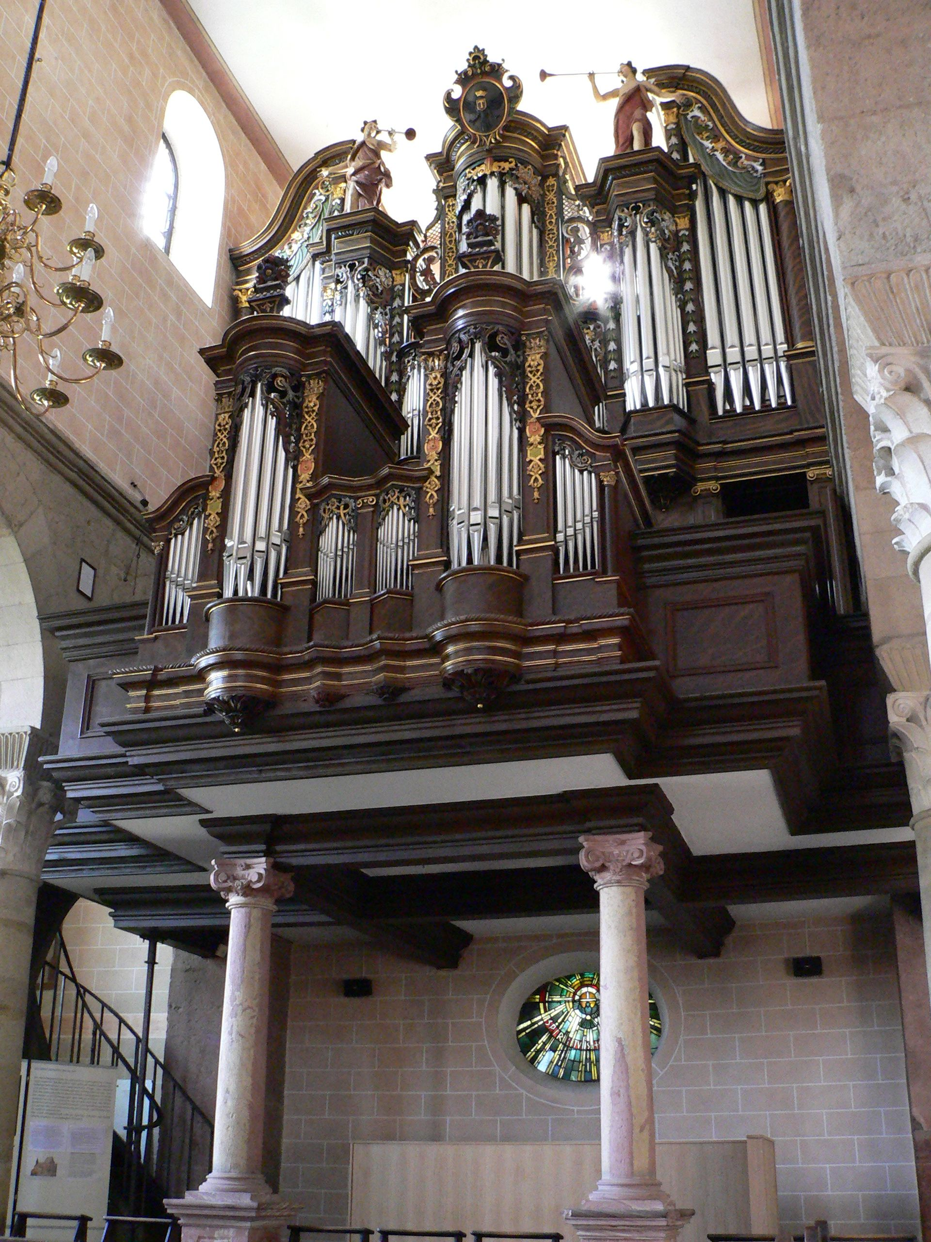 Organ of St Justin church Höchst